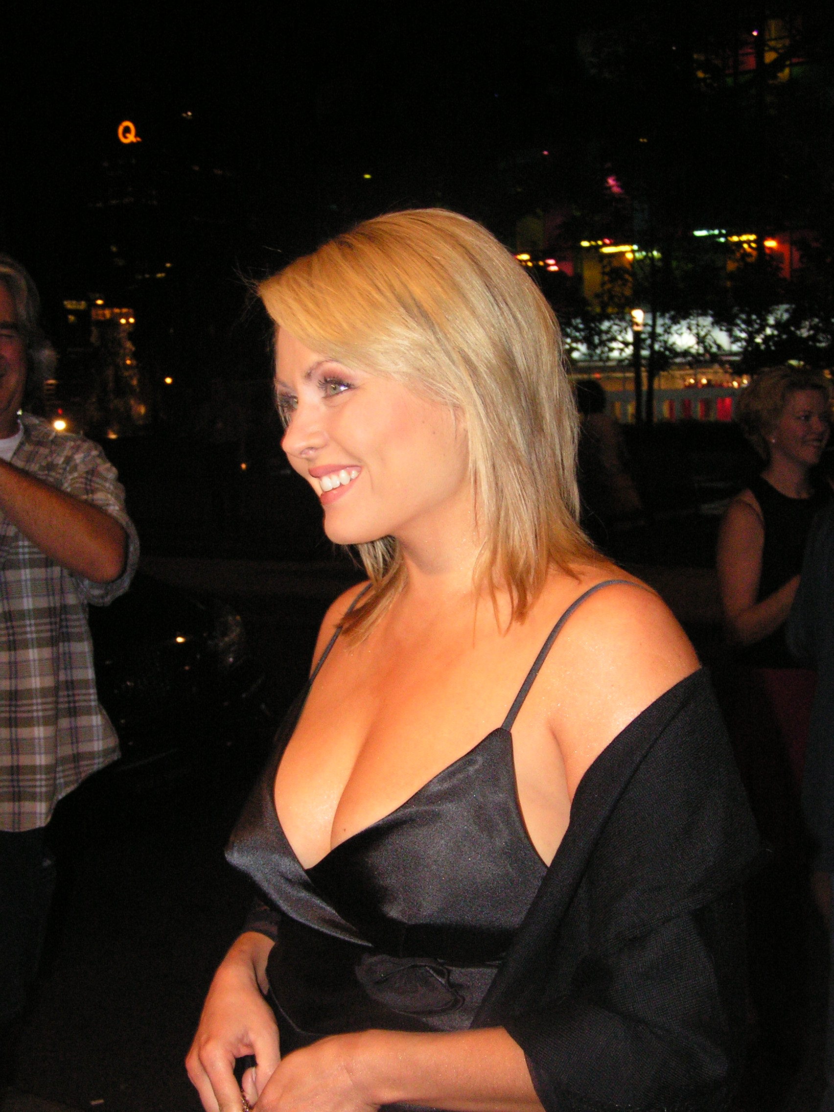 Singer Mitsou Gélinas